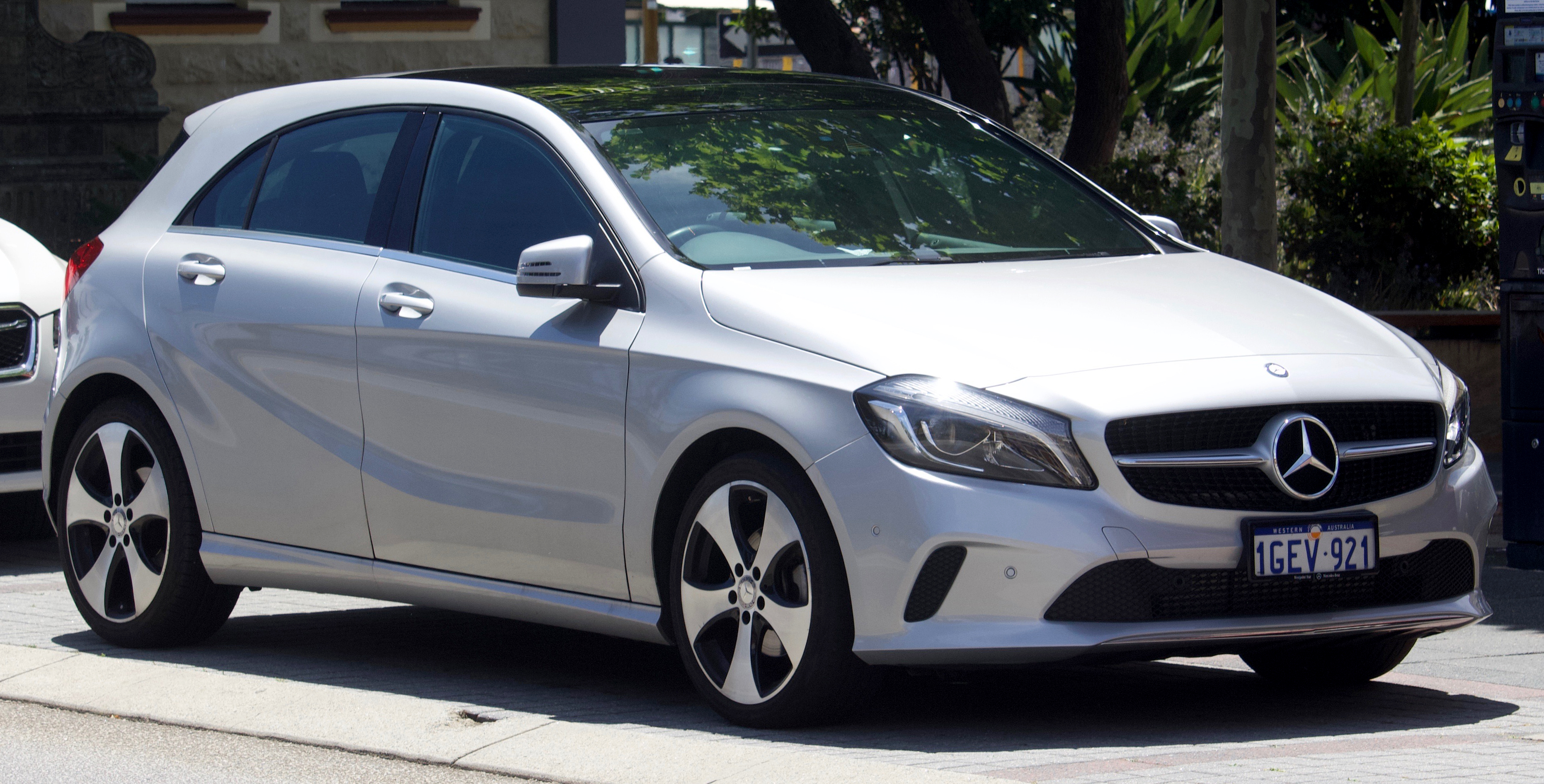 2017 Mercedes-Benz A 200 (W 176) hatchback. Photographed in Fremantle, Western Australia, Australia.